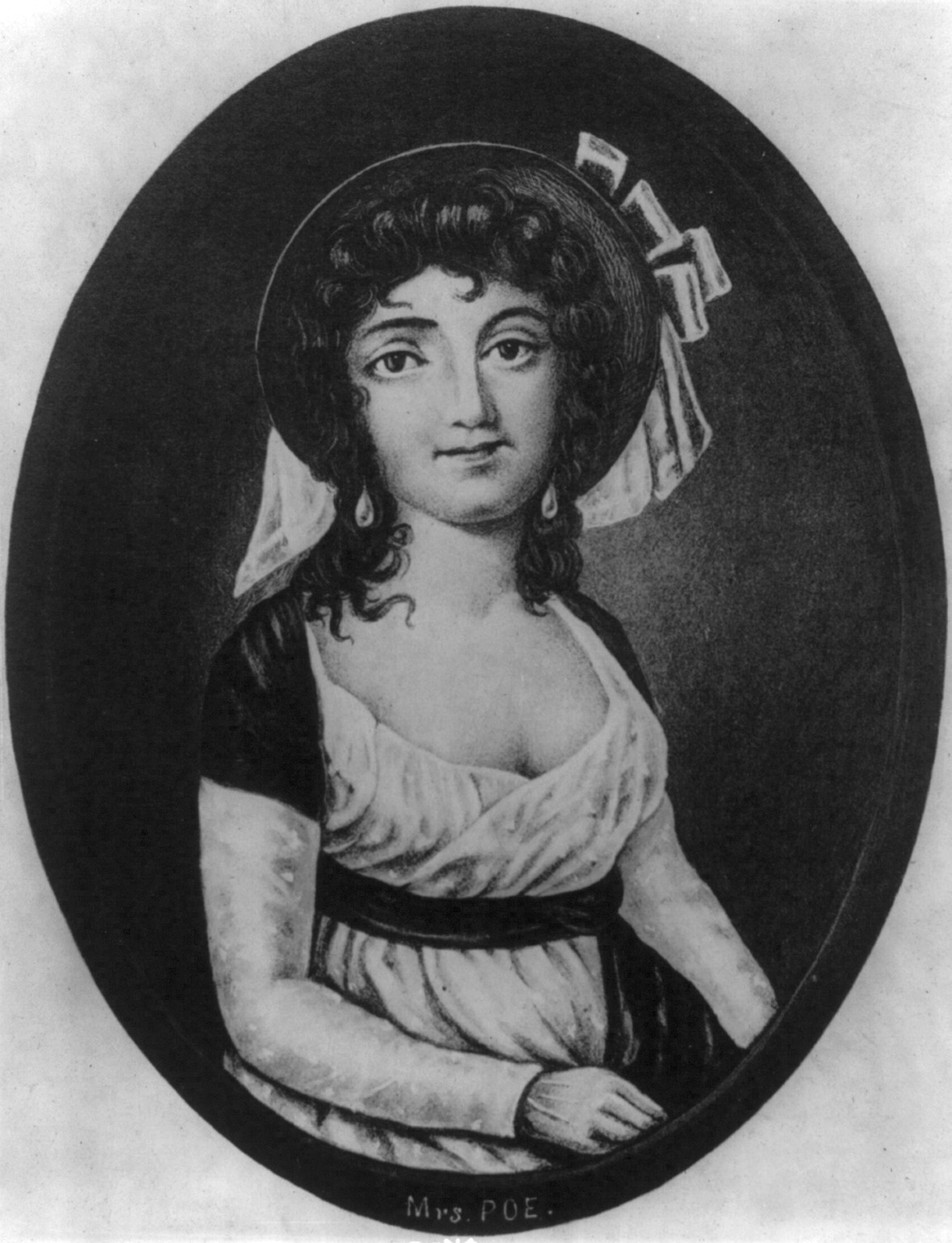 Eliza Arnold Poe (a.k.a. Elizabeth Arnold Hopkins Poe) (1787-1811) British-born American actress and mother of Edgar Allan Poe.